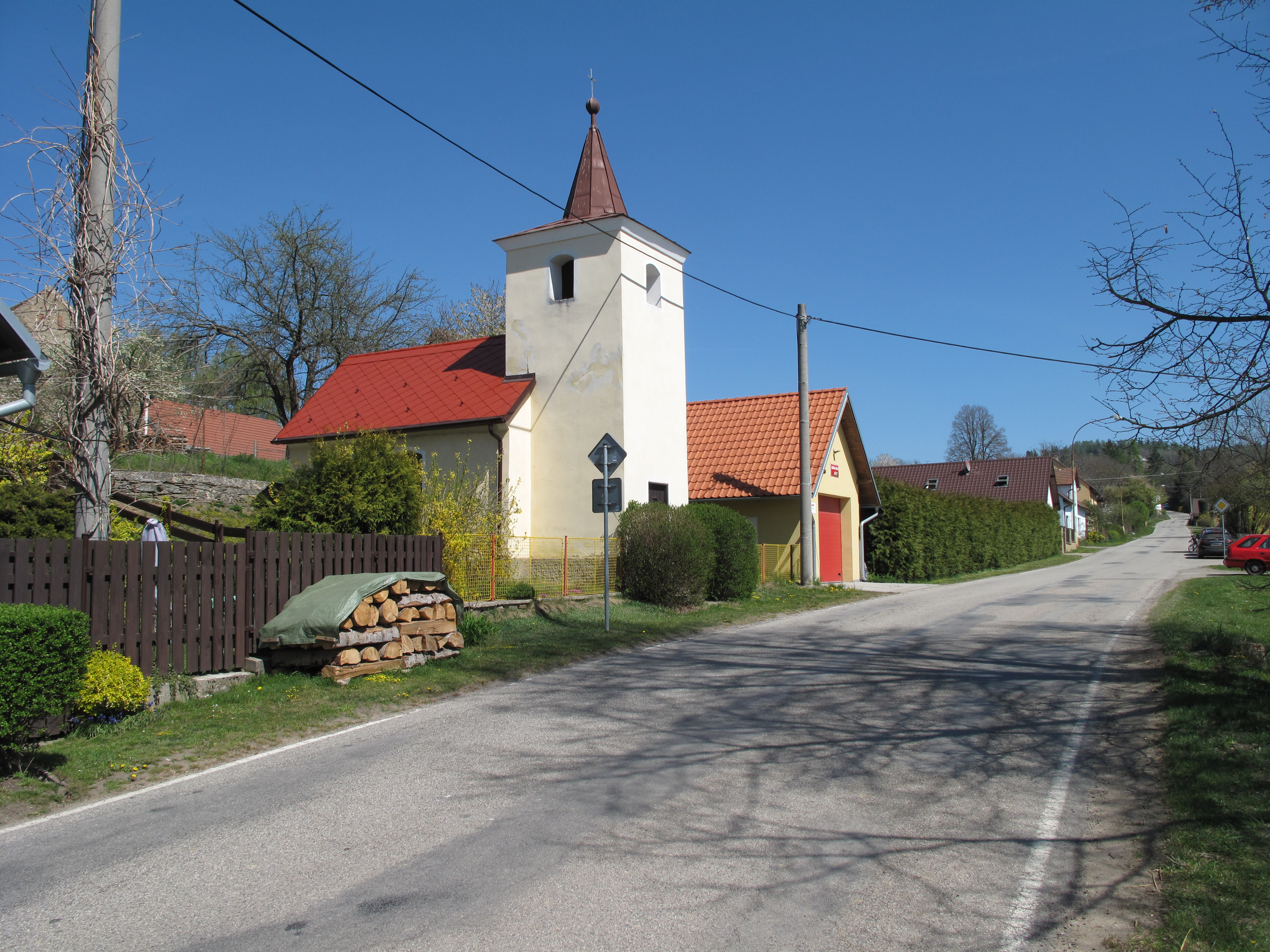 Village chapel in Daměnice.